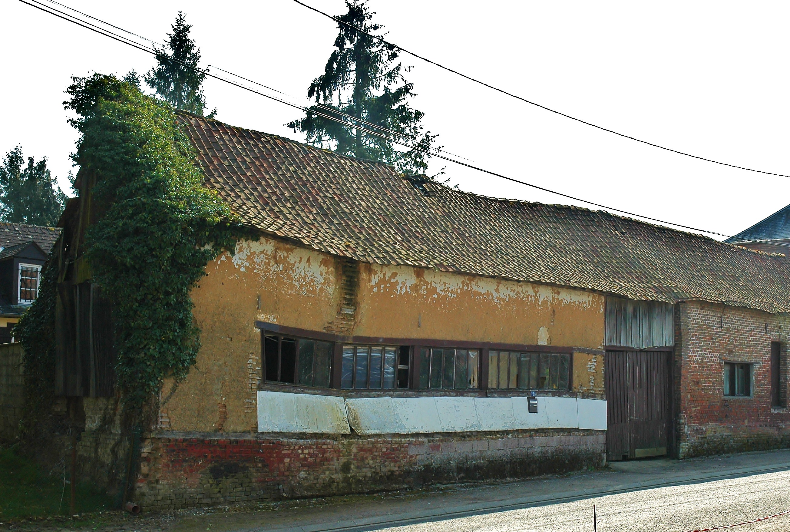 Building in Doudelainville, Somme, France